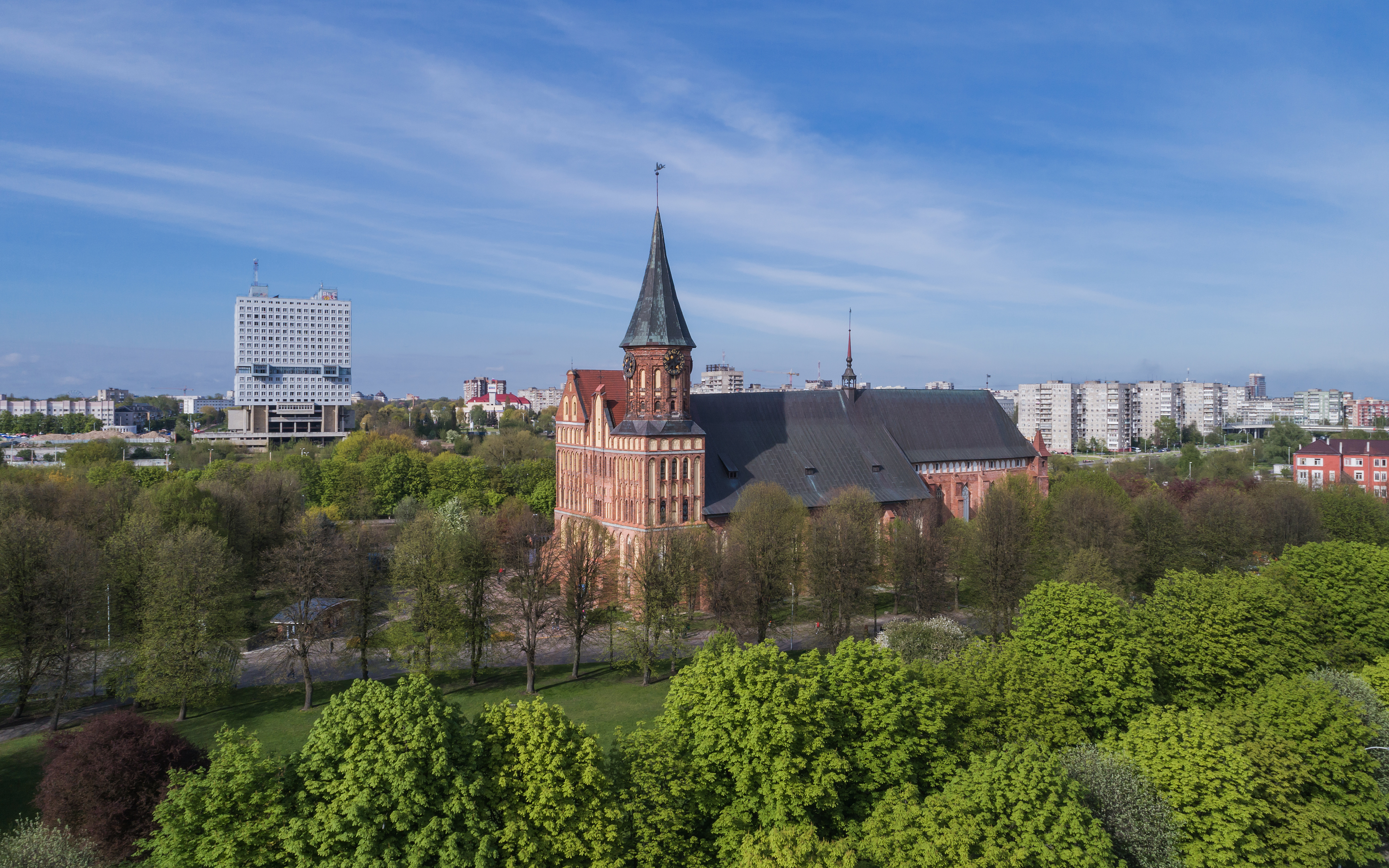 Historical Lutheran cathedral in Kaliningrad formerly Königsberg, Kaliningrad Oblast (Russia).